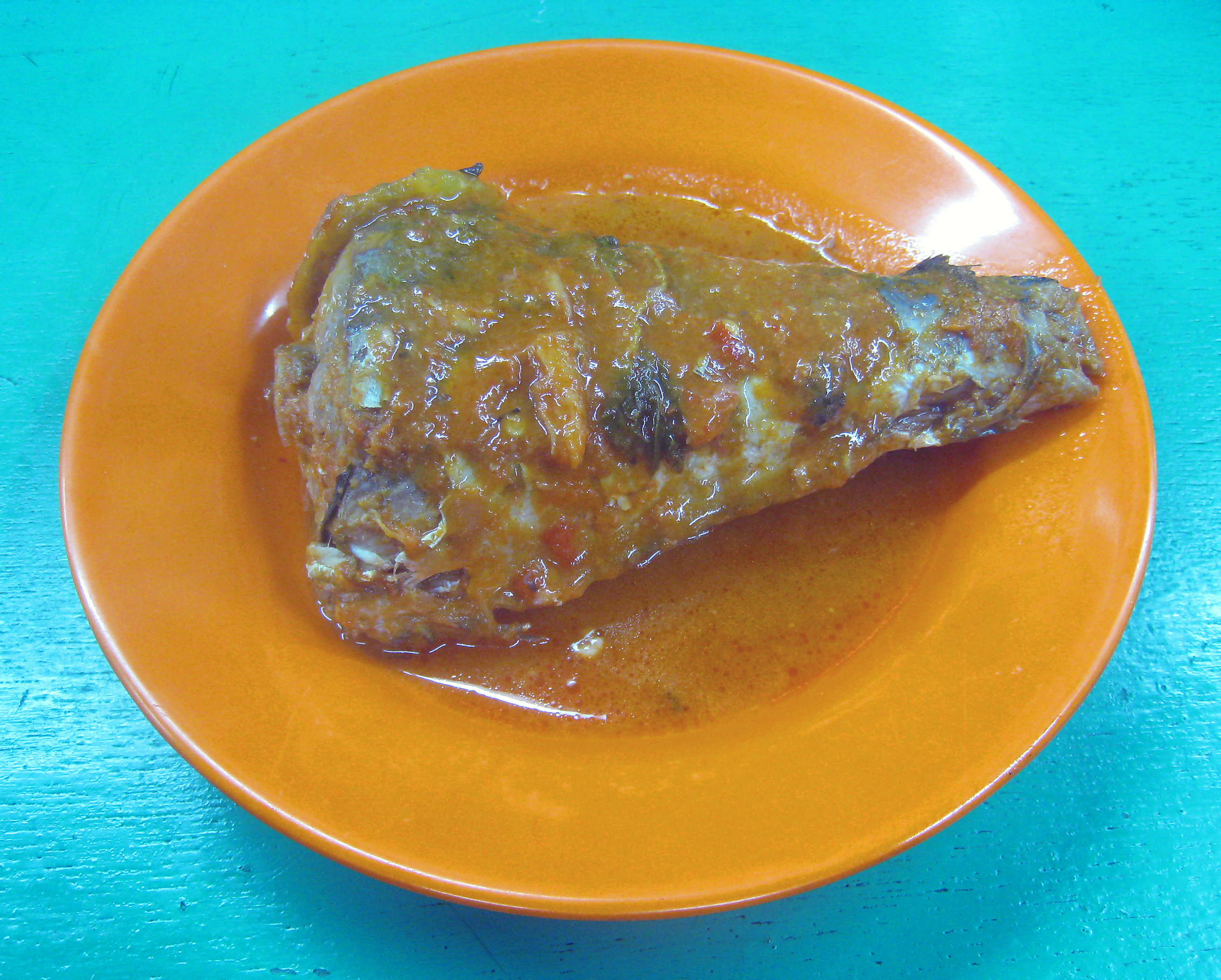 The Padang style Ikan Asam Padeh (Asam pedas fish), fish in hot and sour spice. Padang, Indonesia.